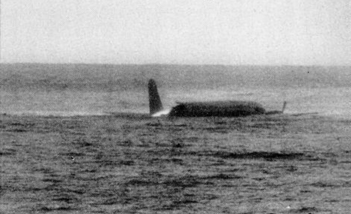 Pan Am Flight 6 Ditches